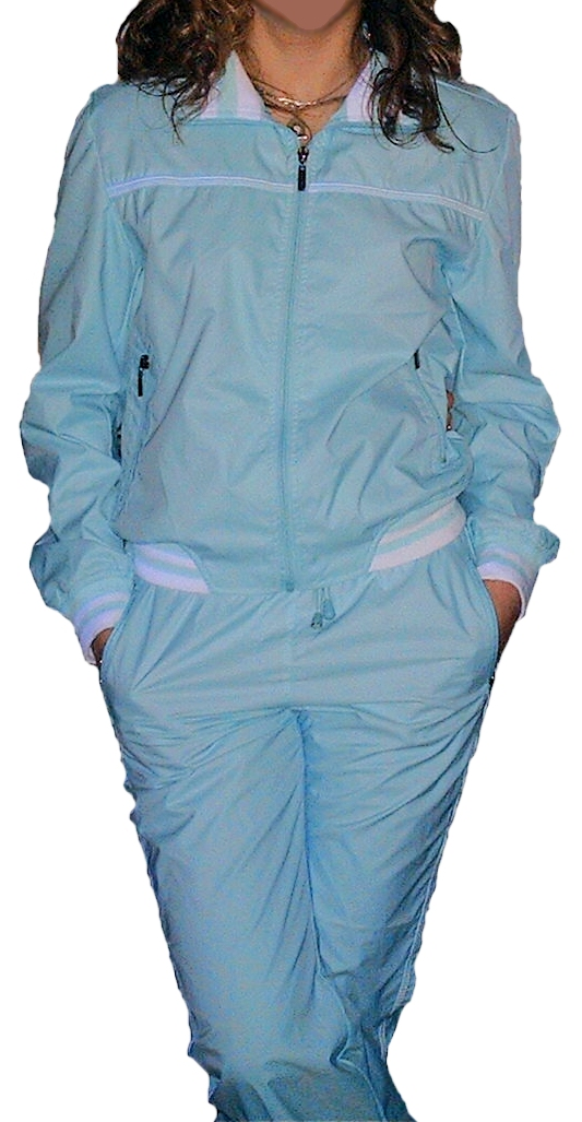 A model of fasion tracksuit, as casual clothing